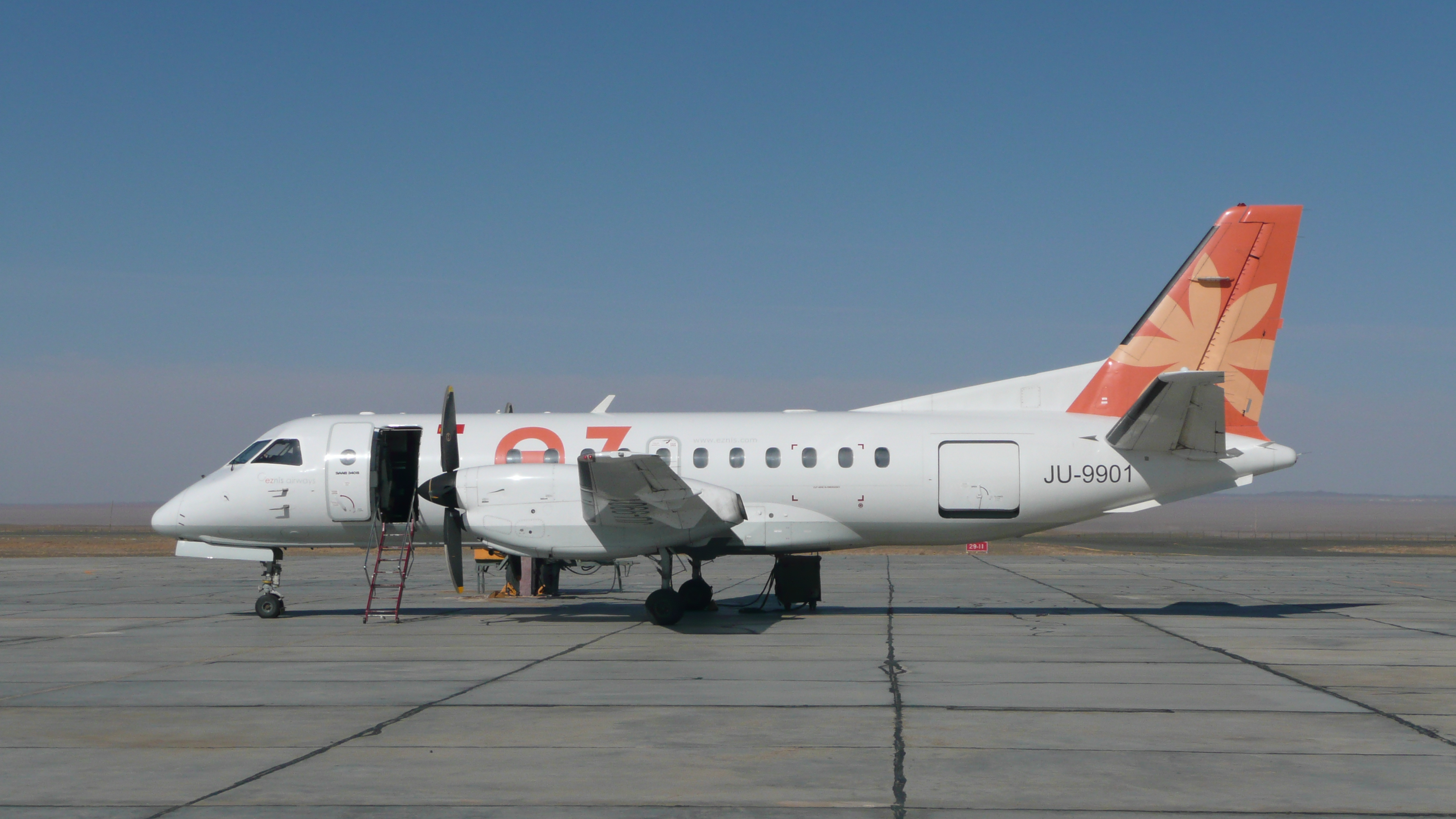 Aircraft of eznis in Dalanzadgad